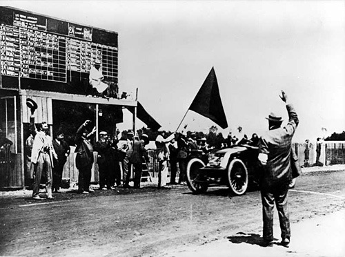 Ferenc Szisz at the finish line of the 1906 French Grand Prix